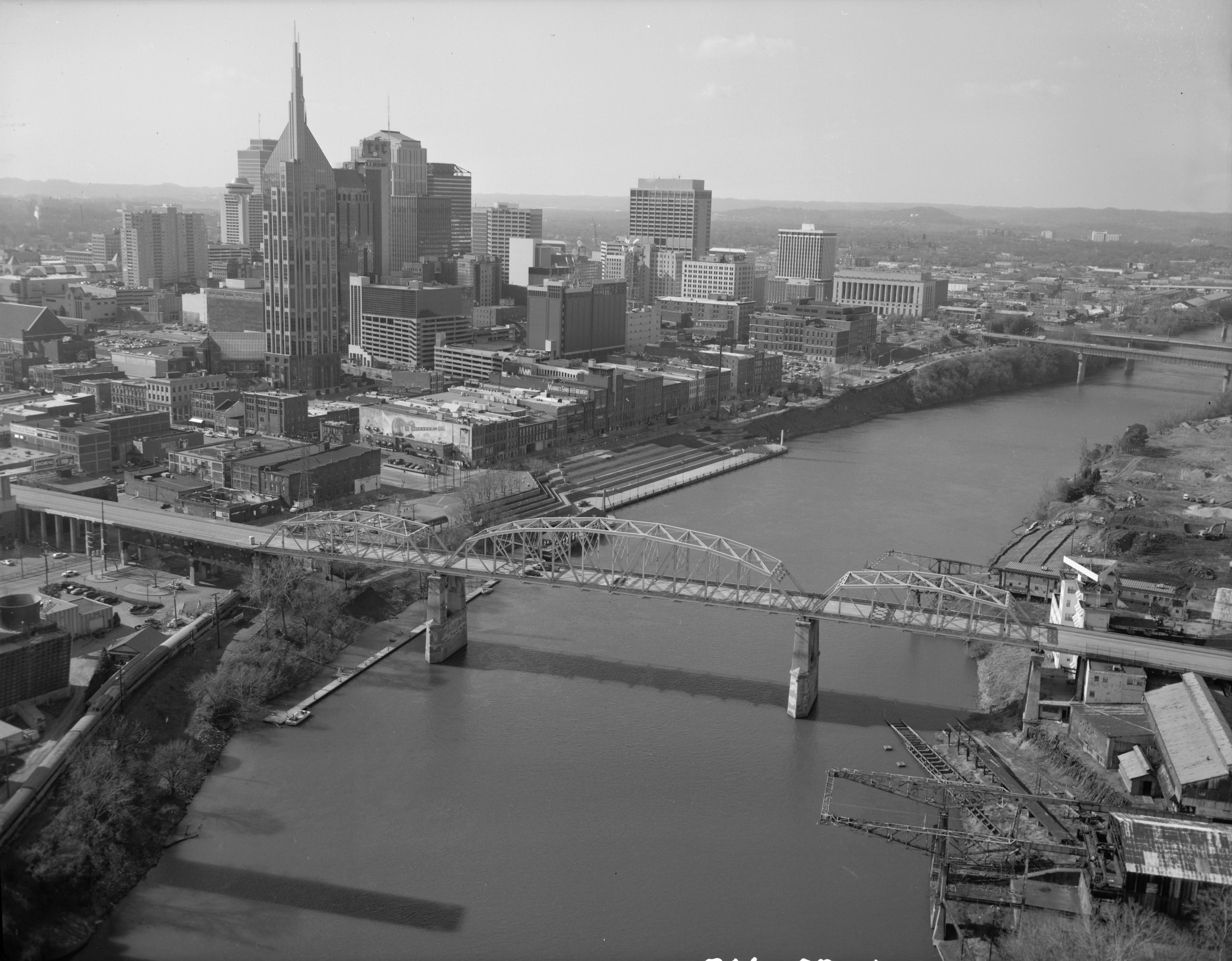 Aerial view of south side of Bridge: River spans and approaches. Looking North. - Sparkman Street Bridge, Spanning Cumberland River, Nashville, Davidson County, Tennessee. (